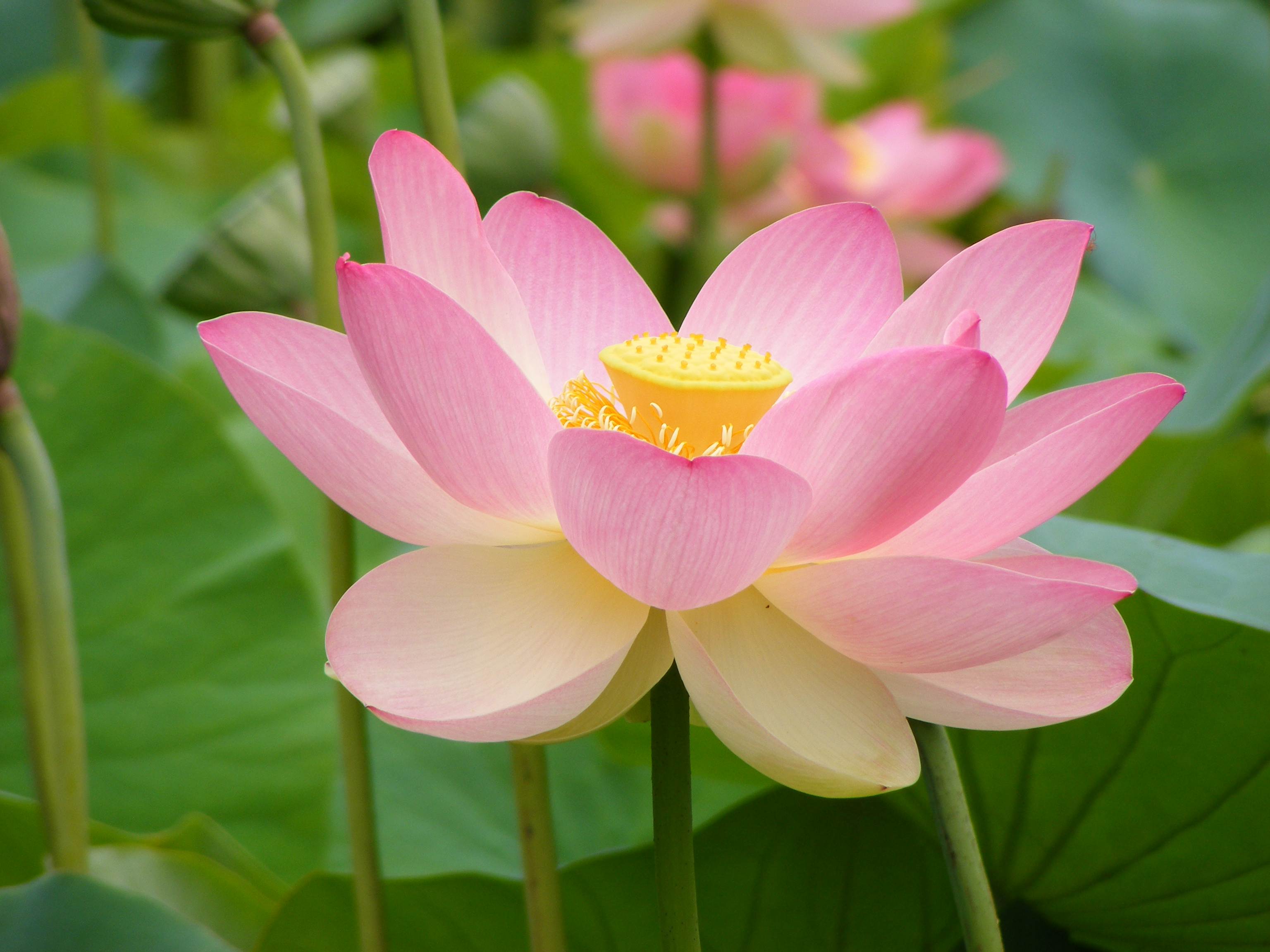 flower of Nelumbo nucifera at Botanic Garden, Adelaide, South Australia.